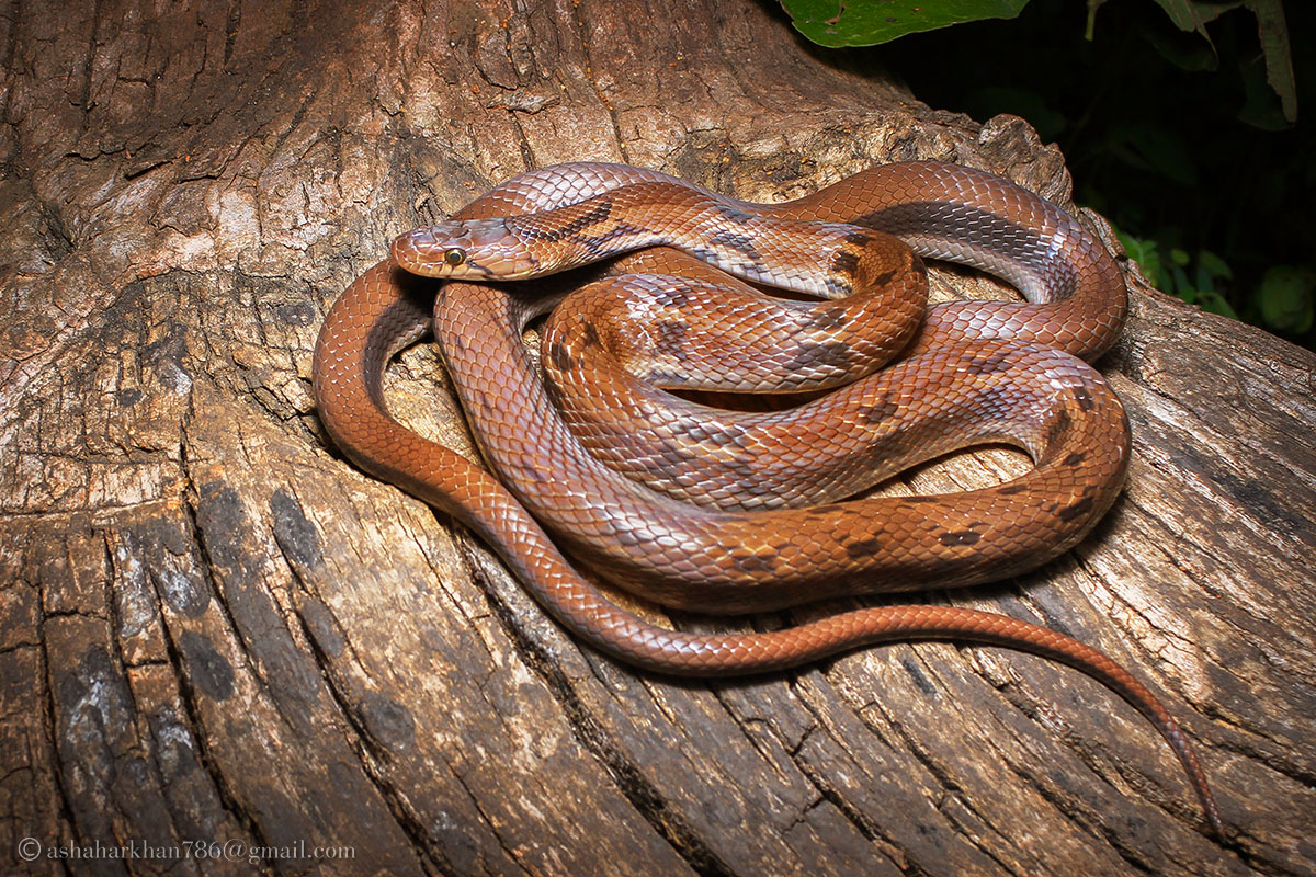 Montane trinket snake Coelognathus helena monticollaris by Ashahar alias Krishna Khan Amravati